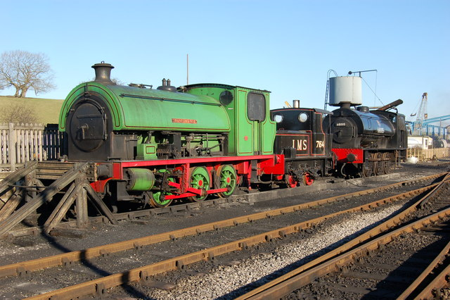 At Rest Steam train at Embsay Identification: Hudswell Clarke? industrial 0-6-0ST Sentinel 7232 Ann, painted up as the (non-preserved) LMS 7164 Hunslet Austerity 0-6-0ST, possibly a J94